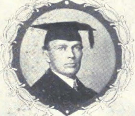 Charles W. Ramsdell, Sr: graduation photograph, University of Texas (1903). From the 1903 Cactus, the University of Texas yearbook.